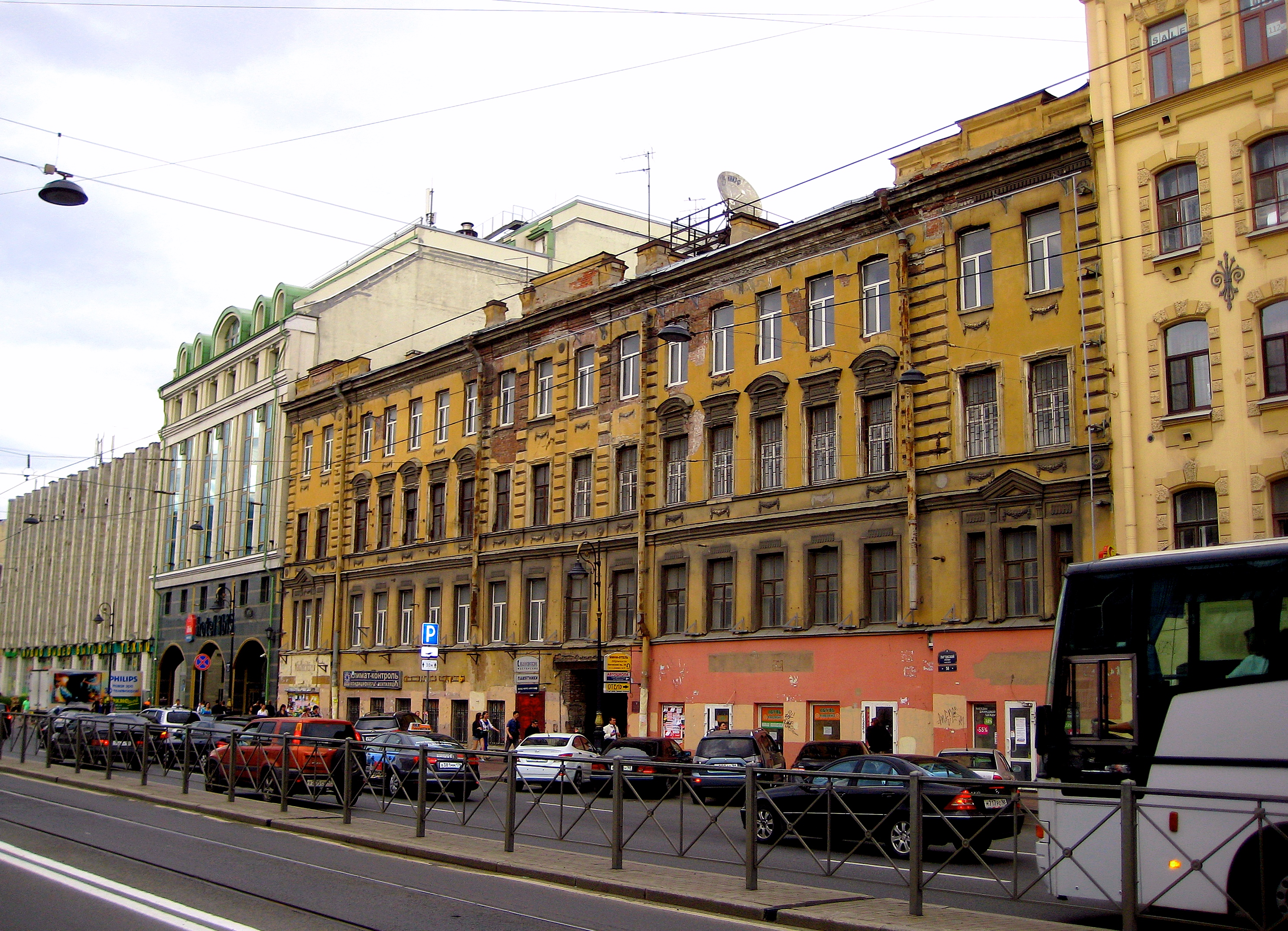 Profitable house of L.M. Malozemova - House of A.M. Ushakov (architect V.F. von Heecker), 1878 (demolished): Ligovsky Avenue, 56. Central District, St. Petersburg.